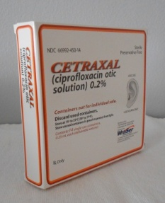 A US otic ciprofloxacin